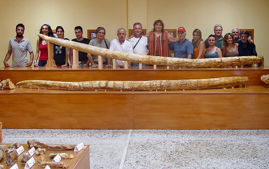 Milia Museum. On show are the longest mastodon (Zygolophodon tapiroides) tusk ever recorded (Guinness World Record [1]). (Presumably the people behind the tusk are the team that excavated it, associate professor Tsoukala, Dick Mol, and a paleontological team from the Aristotle University of Thessaloniki and the School of Geology